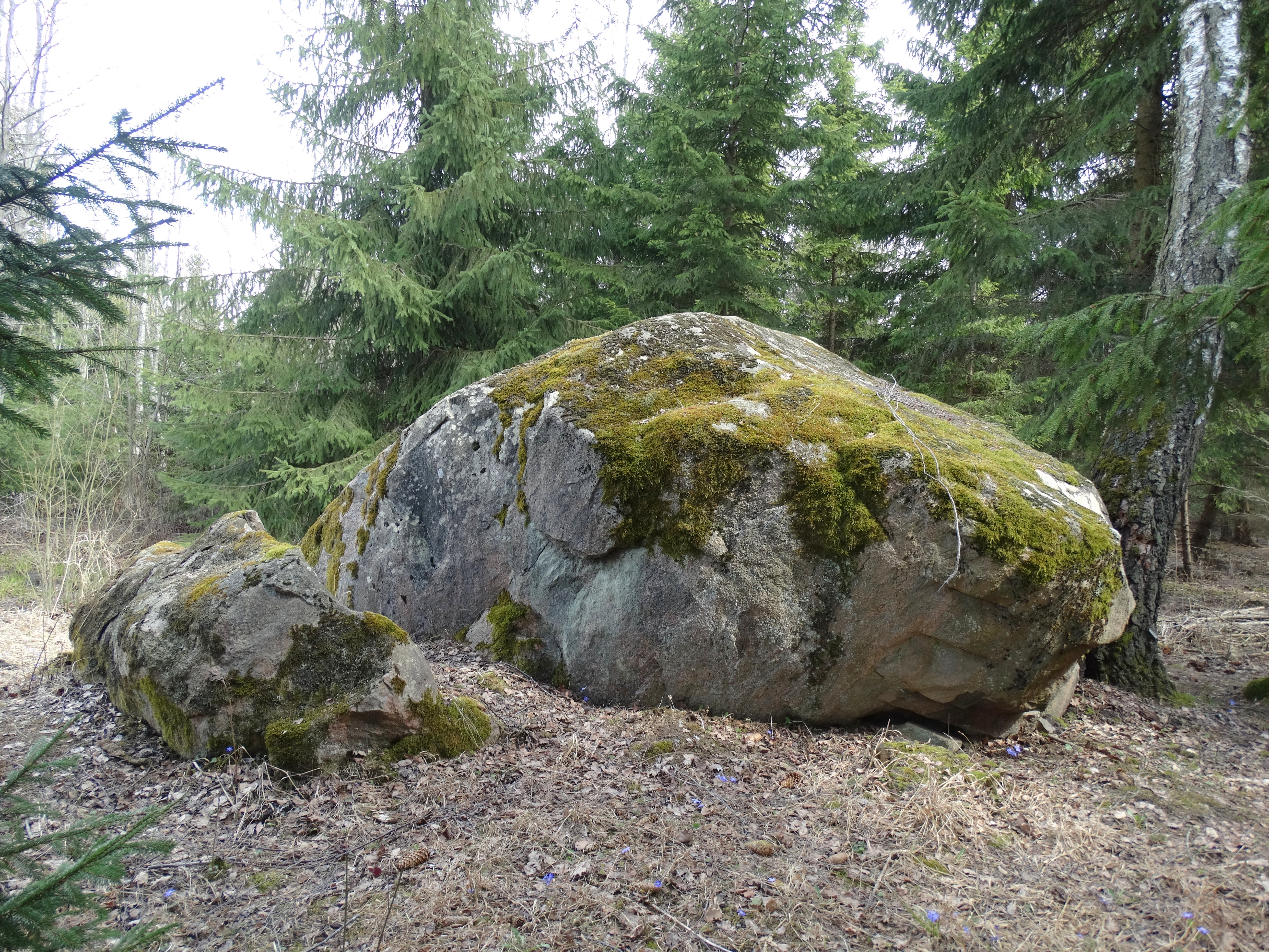 Angel's Stone in Baisogala forest, Radviliškis District, Lithuania